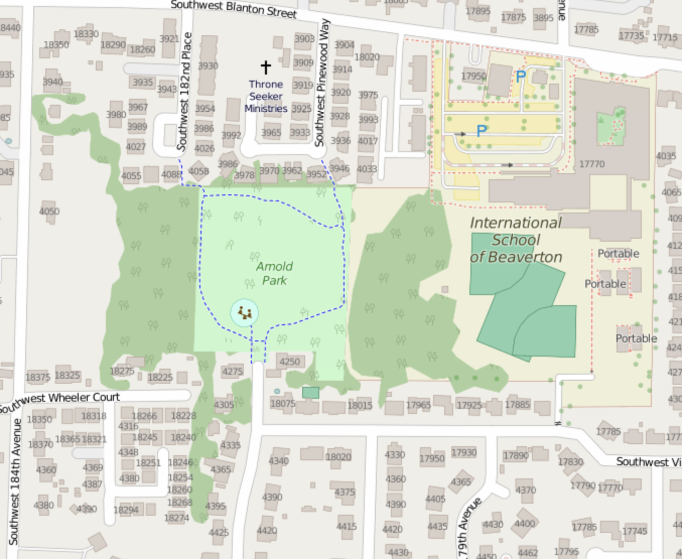 Map of ISB campus This map of Beaverton, Oregon was created from OpenStreetMap project data, collected by the community. This map may be incomplete, and may contain errors. Don't rely solely on it for navigation.